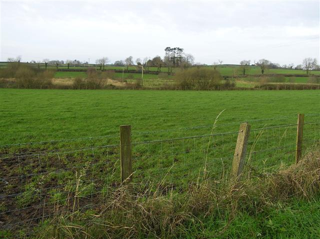 Aghaloughan Townland The ground is fairly flat here.